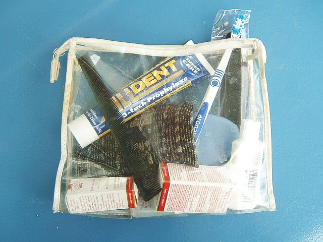 handbag with necessary utilities, Kulturbeutel, toilet bag, washbag